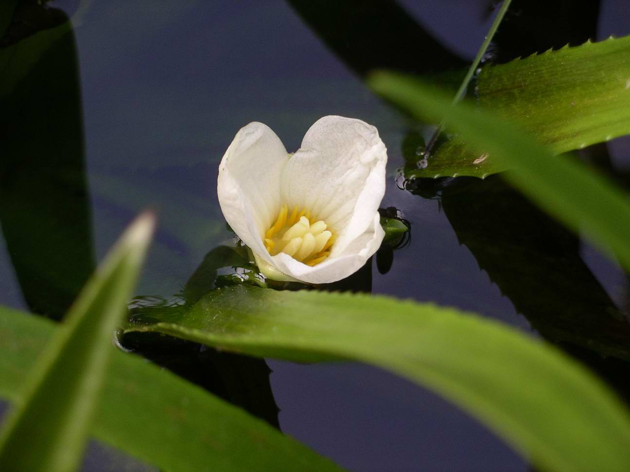 Flower of the Water soldier, Startiodes aloides